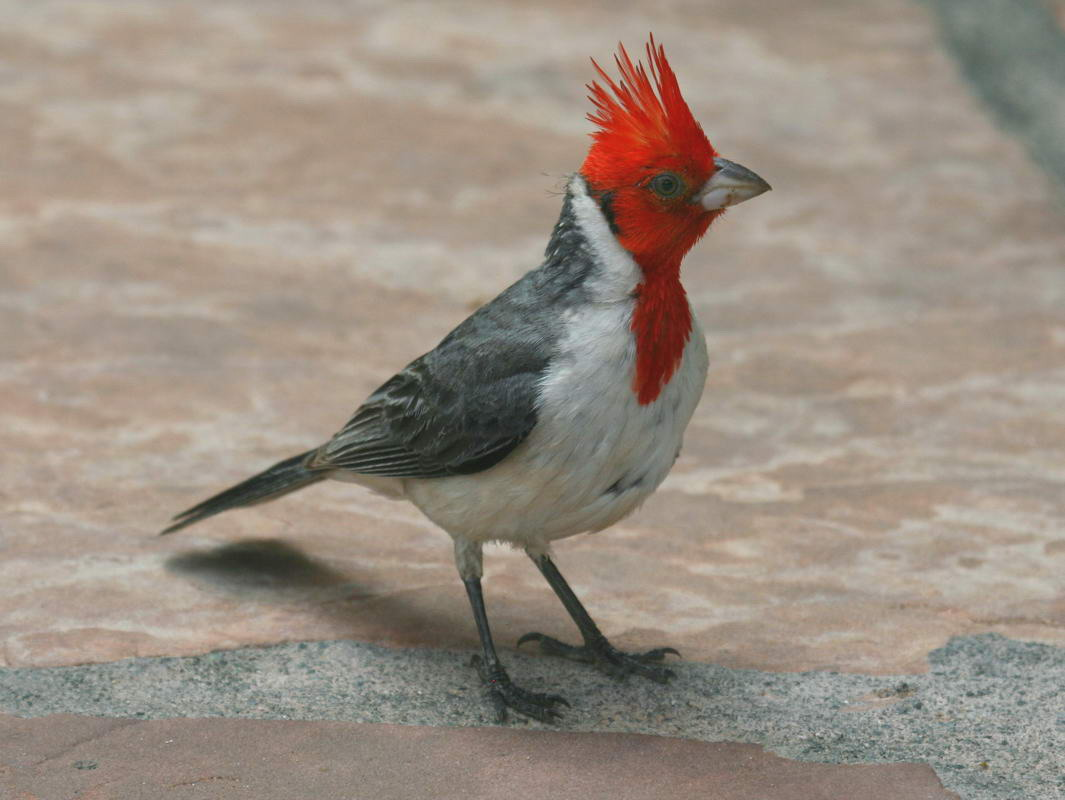 Red-crested Cardinal or Brazilian Cardinal (Paroaria coronata) - Maui, Hawaii